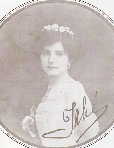 Princess Helen of Serbia, daughter of king Peter I.